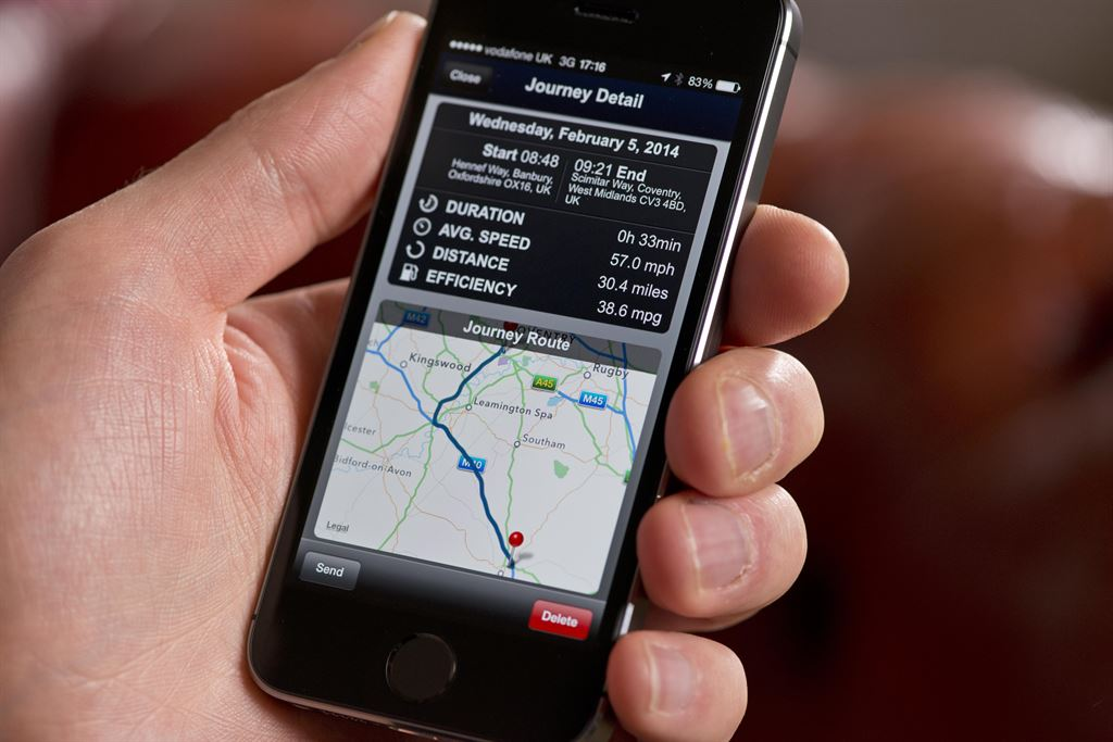 New Range Rover Evoque Autobiography Land Rover is introducing the Autobiography name to the Range Rover Evoque for the first time with two new premium derivatives to the line-up for 2015: the luxurious Autobiography tops the range, complemented by the more powerful, more agile Autobiography Dynamic with its 285PS turbocharged engine and optimised chassis for enhanced performance and sharper handling.